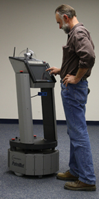 Selecting a destination from a robot guide and security guard, Courtesy of MobileRobots Inc